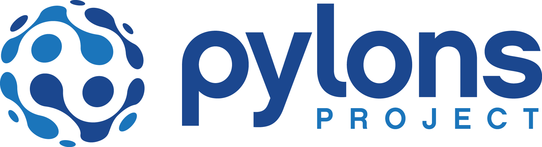 Pylons Project logo